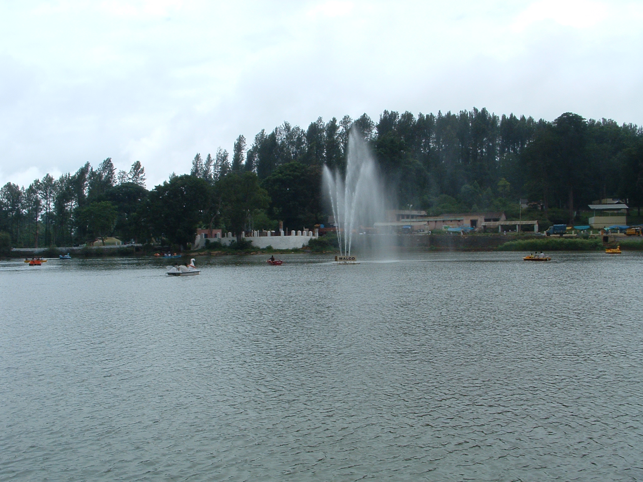 The fountain on Yercaud Lake.